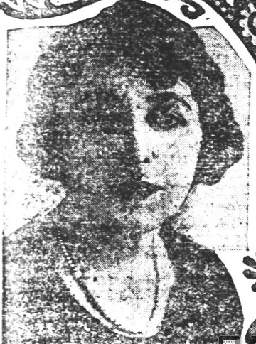 A grainy newspaper image of a white woman with dark, bobbed hair.